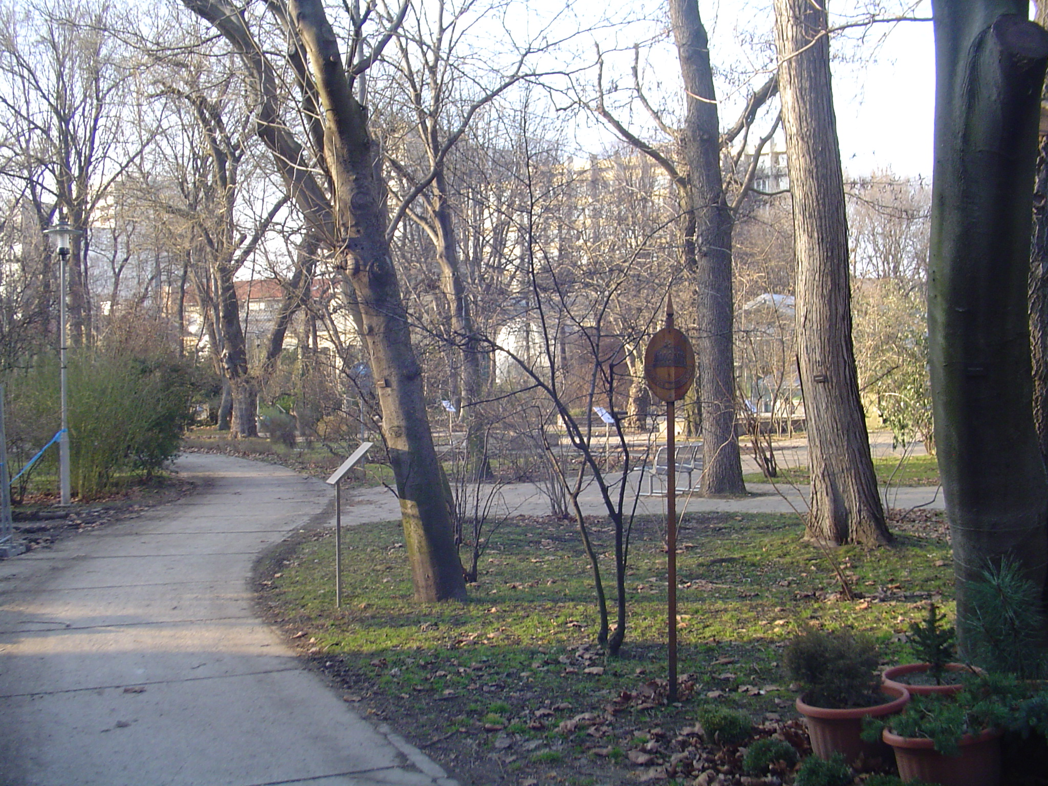 Internal view of botanic garden called Füvészkert. (Hungary, Budapest)